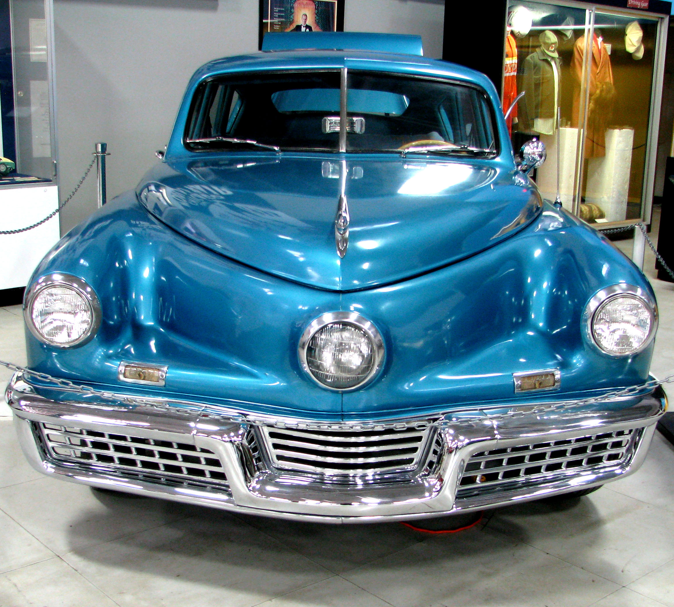 Only 51 Tuckers were ever built. There are 47 still in existence. This is car #1019 (the numbers begin at 1000). The first Tucker was entirely handmade. It is not usually given a number but is affectionately called the Tin Goose. The Tin Goose is still on display at the William E. Swigart Jr. Automobile Museum in Pennsylvania. The Tucker pictured is temporarily at the San Diego Automotive Museum in Balboa Park.